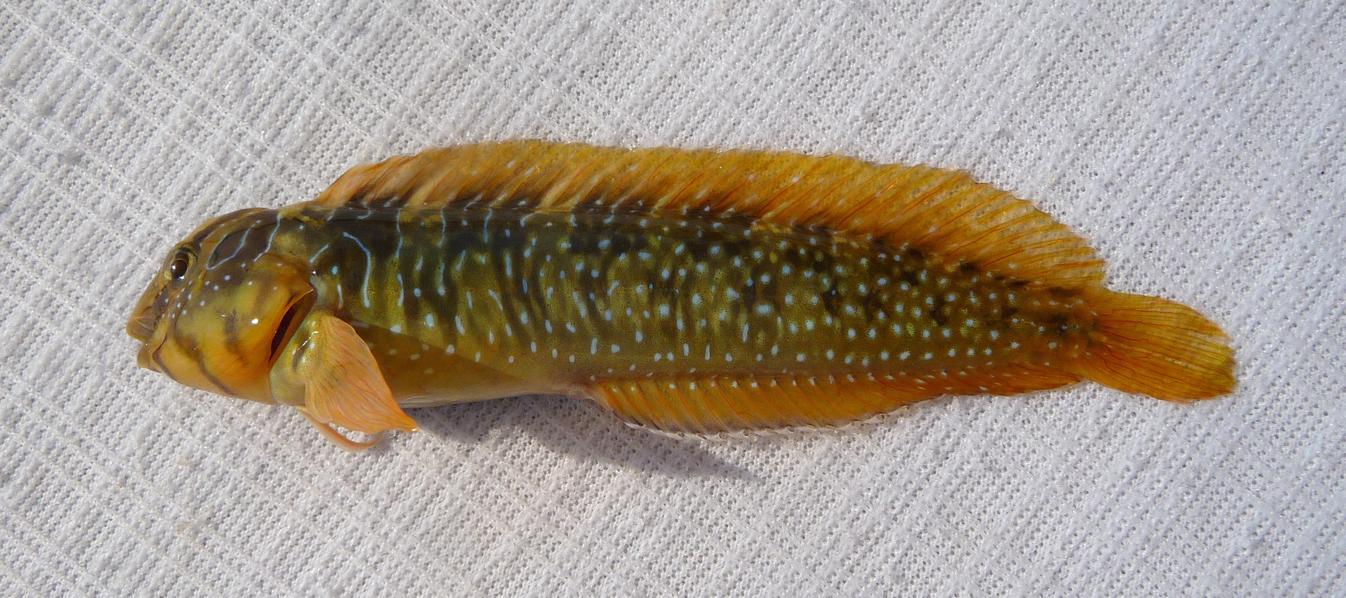 Salaria pavo (Risso, 1810). Peacock blenny female. This funny predatory fish was caught in the Black sea. Wet matter was used as a background to prevent damage to its skin. After very short photosession the fish was released back to the sea. This fish is able to change colour, like a chameleon. Geogoding of the location at which it was caught and photographed are the same.